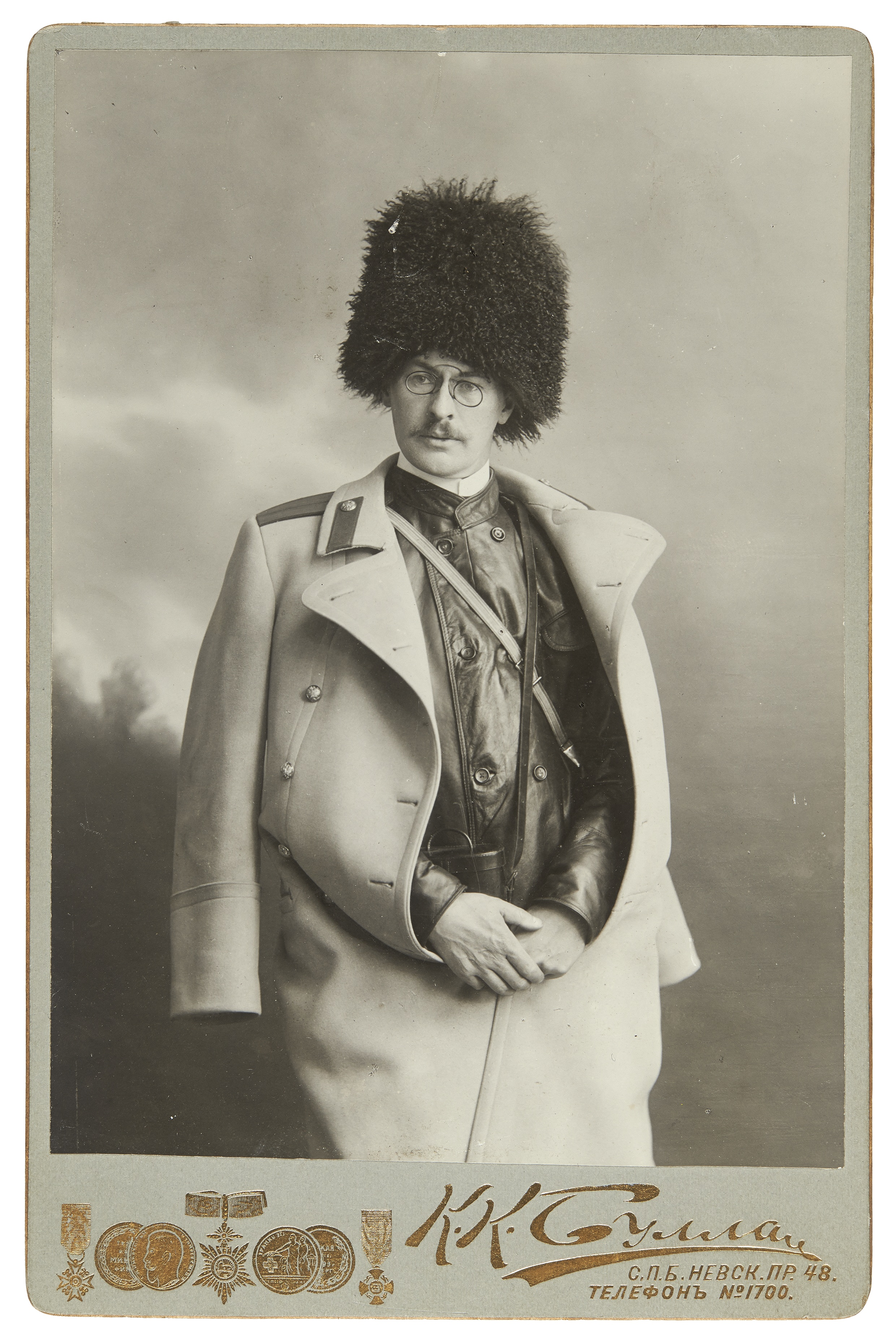 Hugo Backmansson in St. Petersburg in 1904